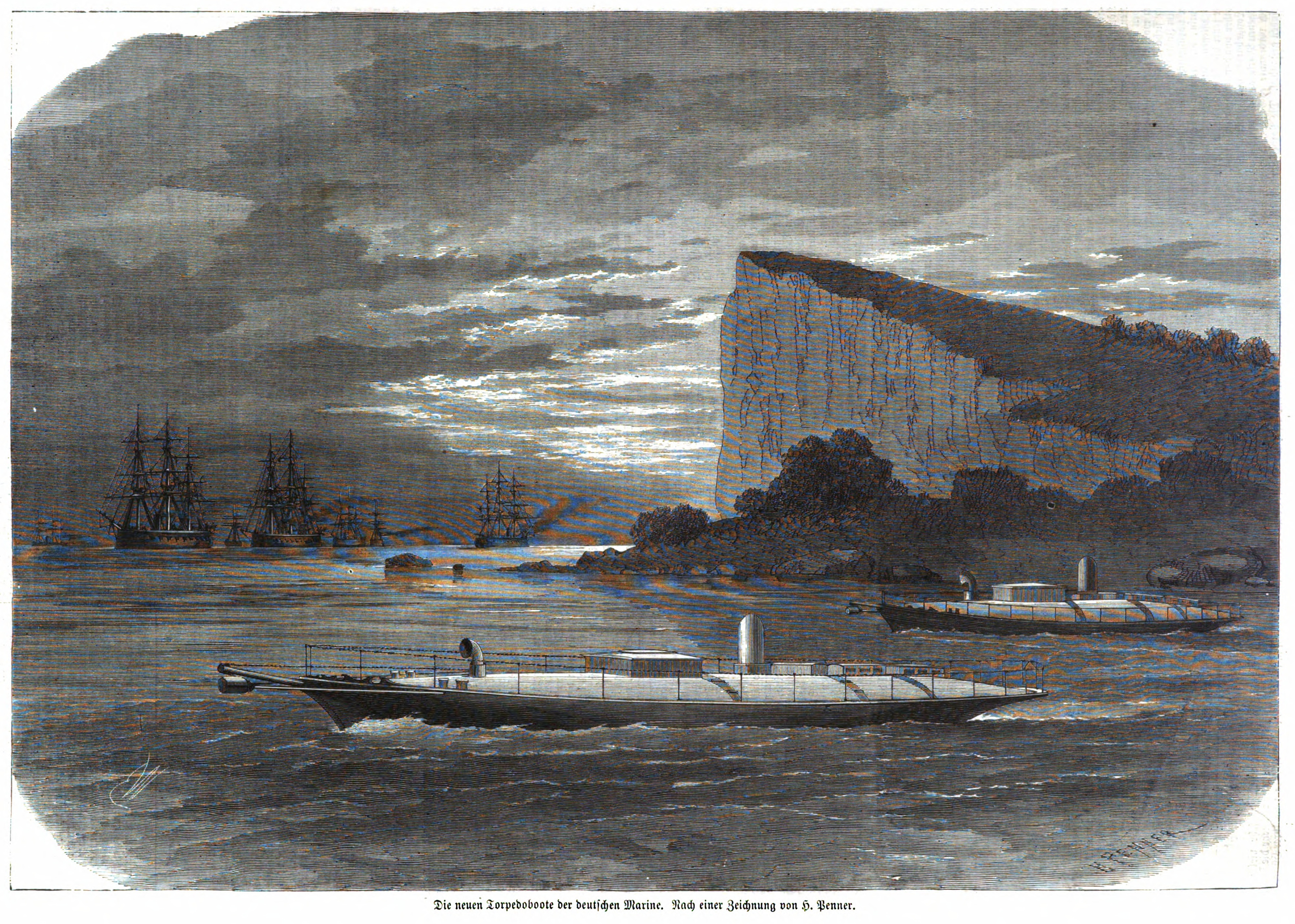 An artist's impression of the first three German spar torpedo boats (I-III), ordered from Devrient in Danzig and built 1871-1872. The text appears on page 343 of the Illustrirte Zeitung, published November 4, 1871.